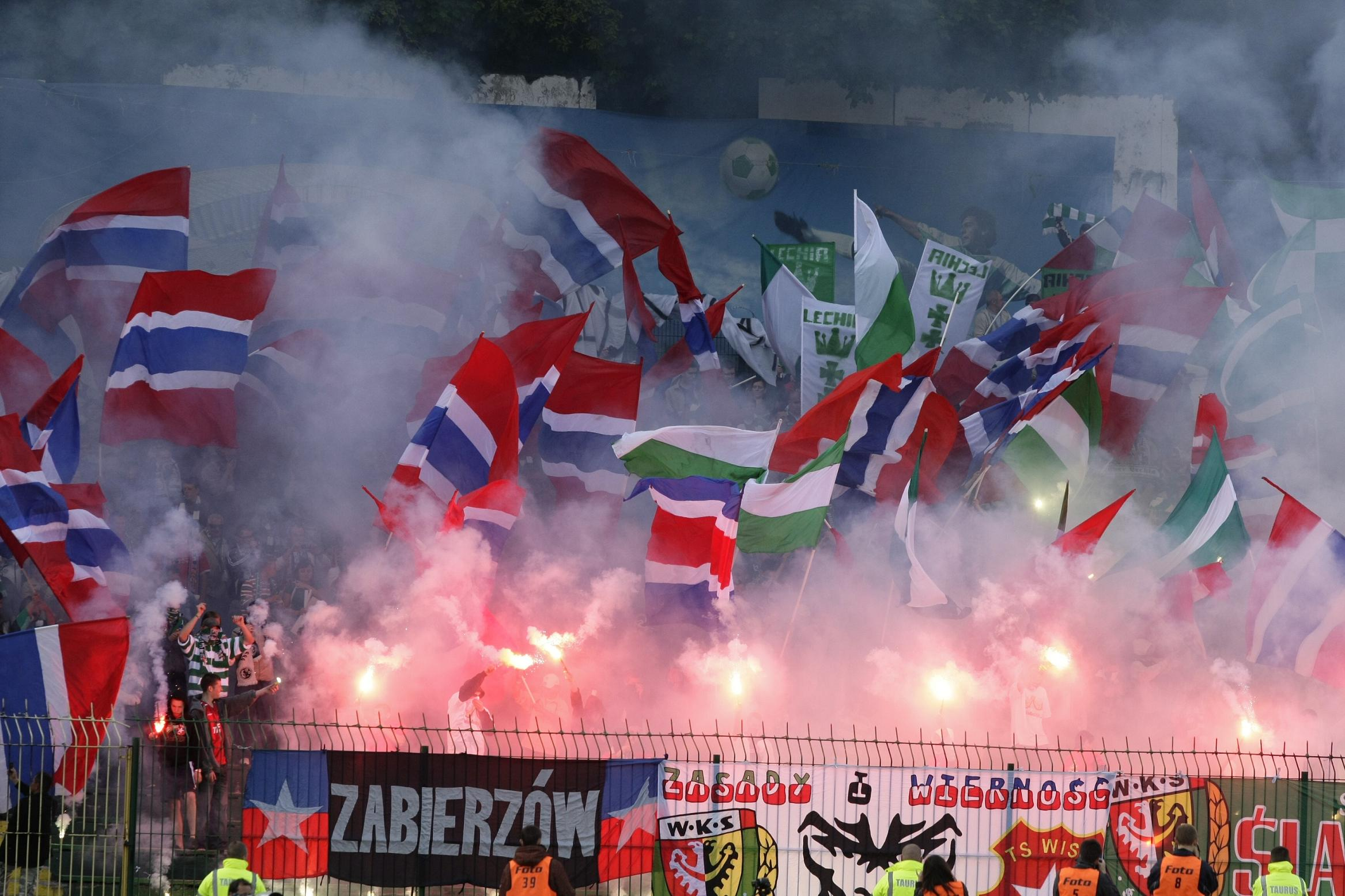 Lechia Gdansk & Wisla Krakow